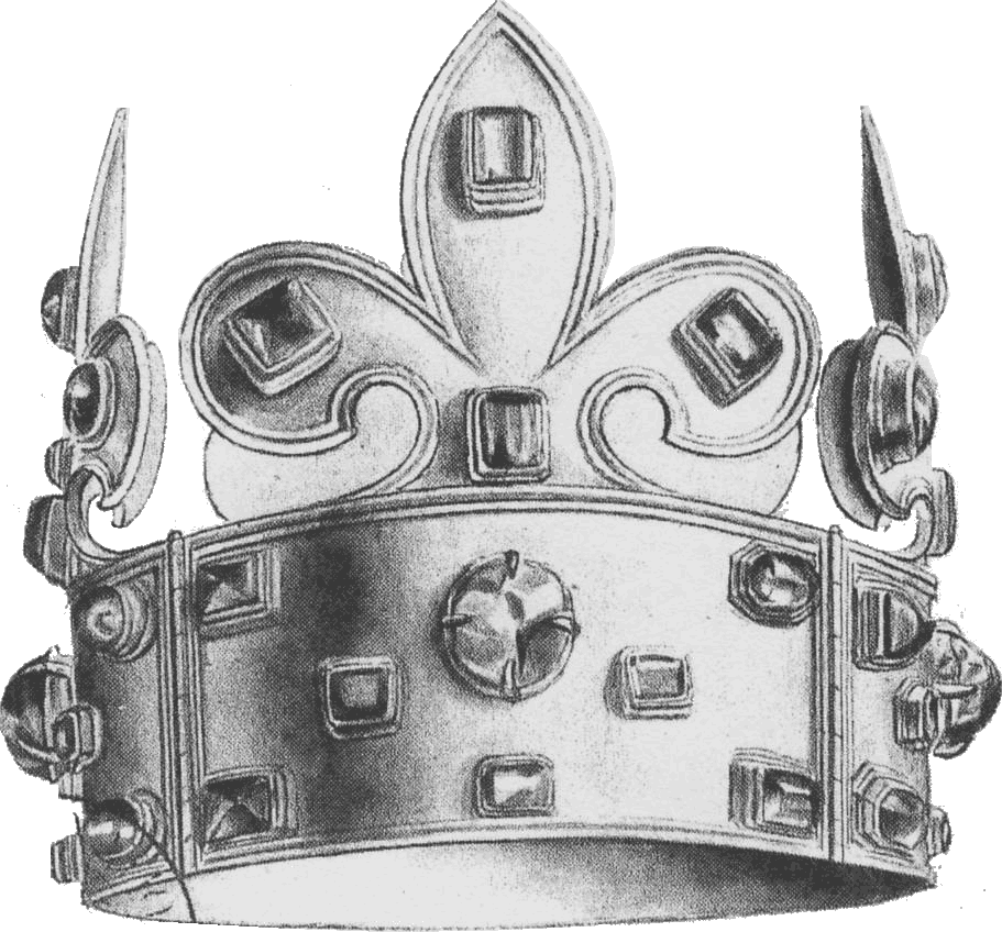 French coronation crown known as the Crown of Charlemagne from 1271.